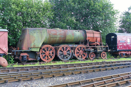 249 squadron at Bury